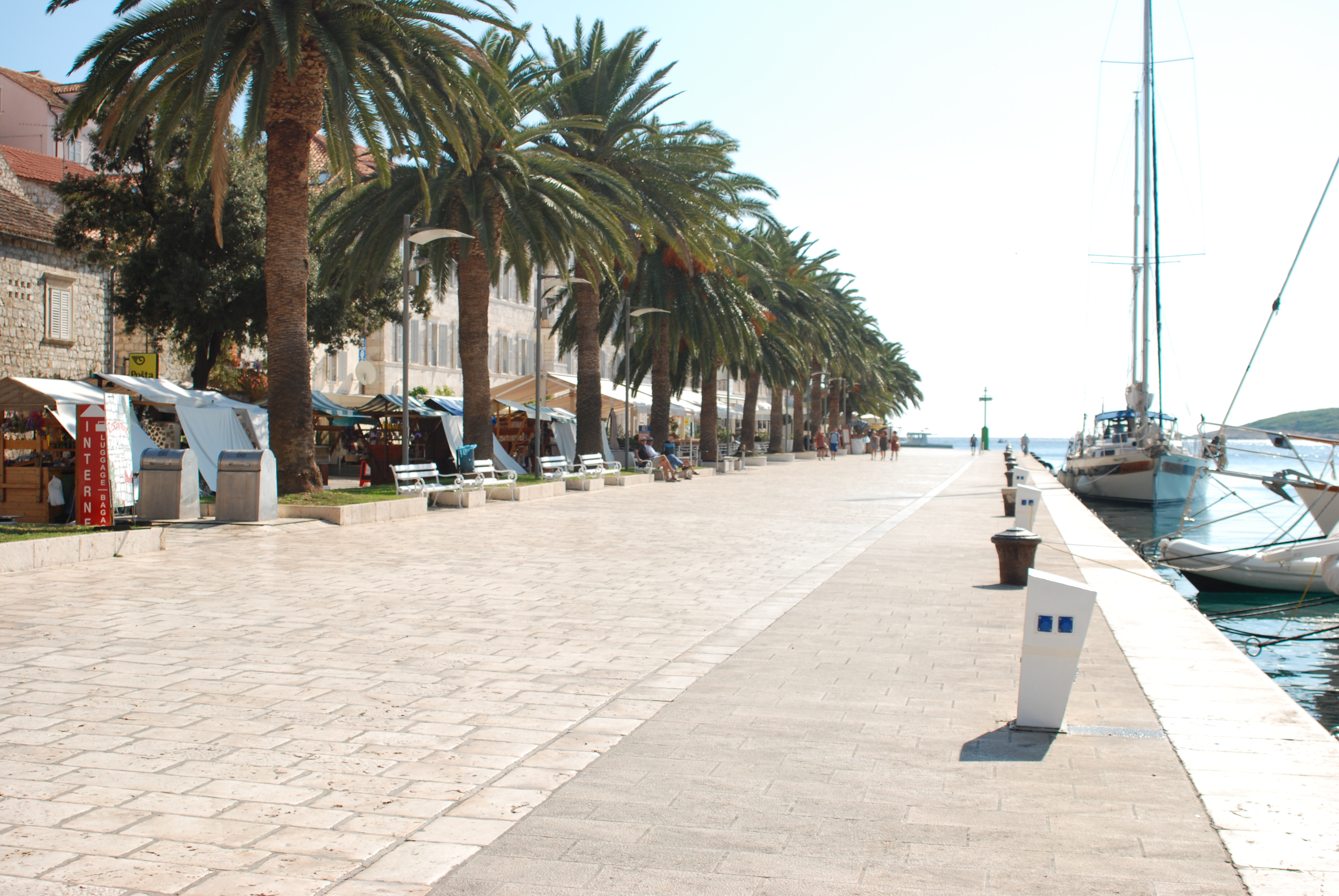 Dock Hvar, Croatia.